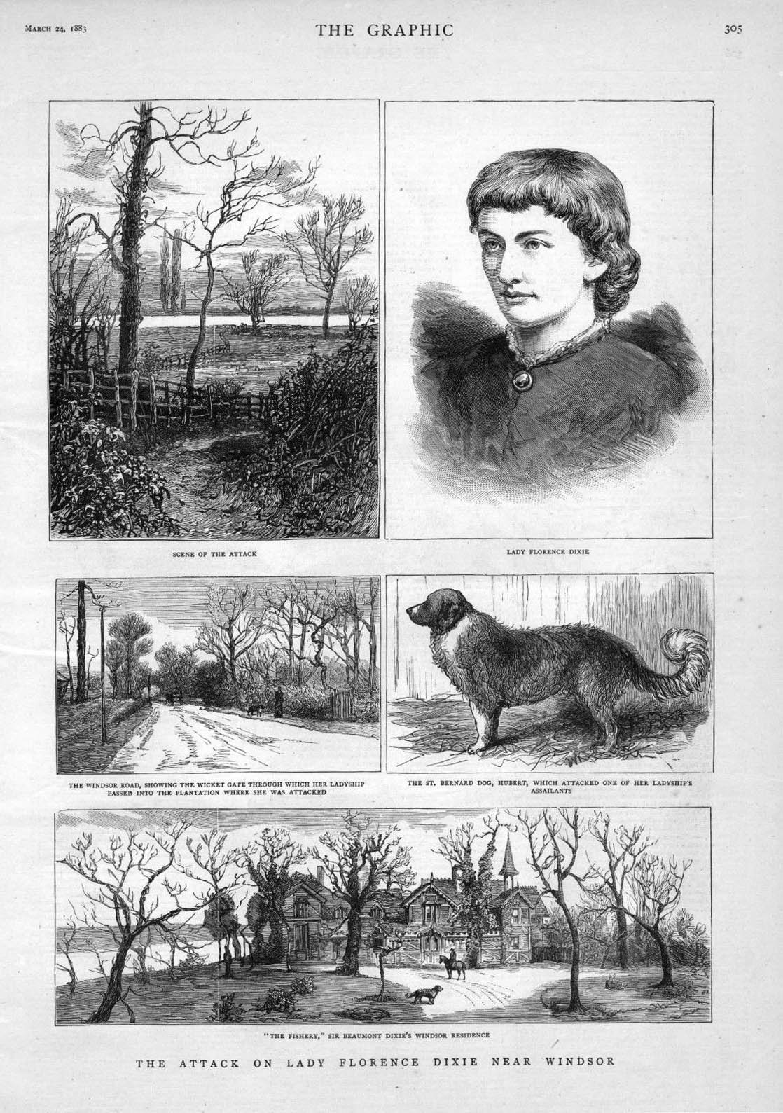 A five-panel page from "The Graphic", March 24, 1883, page 305, showing "Scene of the Attack", "Lady Florence Dixie", "The Windsor Road, showing the wicket gate through which her ladyship passed into the plantation where she was attacked", "The St. Bernard dog, Hubert, which attacked one of her ladyship's assailants", "The Fishery, Sir Beaumont Dixie's WIndsor Residence".